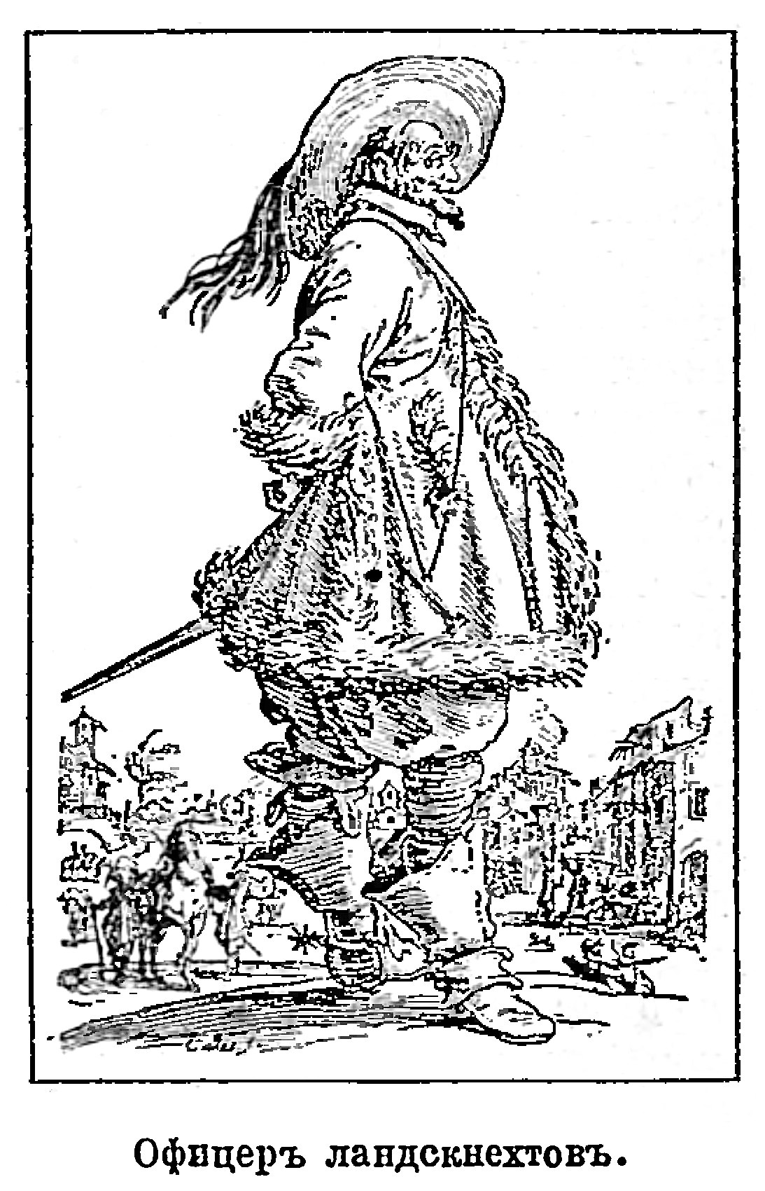 Landsknecht.